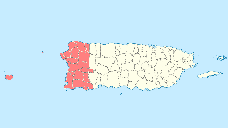 map of Porta del Sol